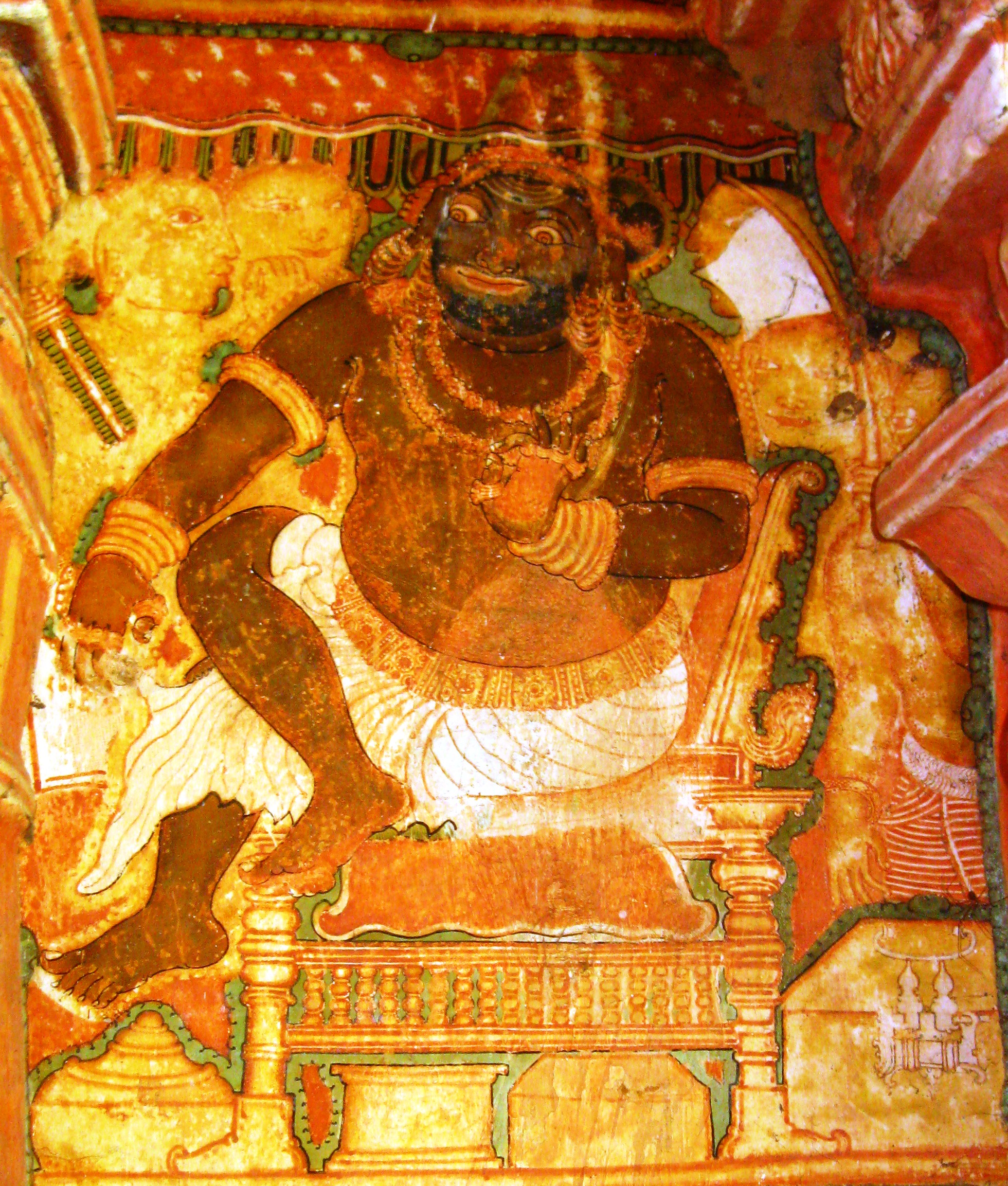 Thodeekkalam mural paintings,Kerala,Kannur